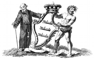 Coat of Arms